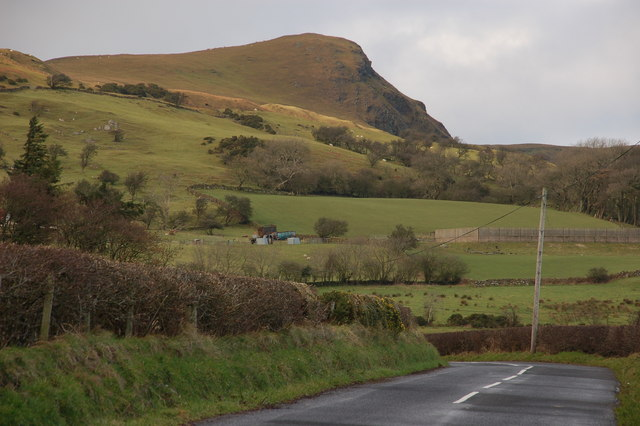 The Sallagh Road near Cairncastle The Sallagh Road runs between Cairncastle and the Sallagh Braes. The Sallagh Braes are inland cliffs of more than 1000 ft in height. This is the road with Scawt Hill (appx 1240 ft) in the background.